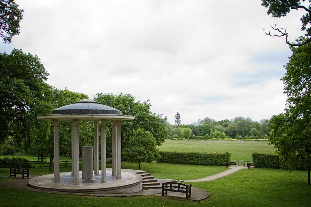 American Bar Association memorial to Magna Carta at Runnymede